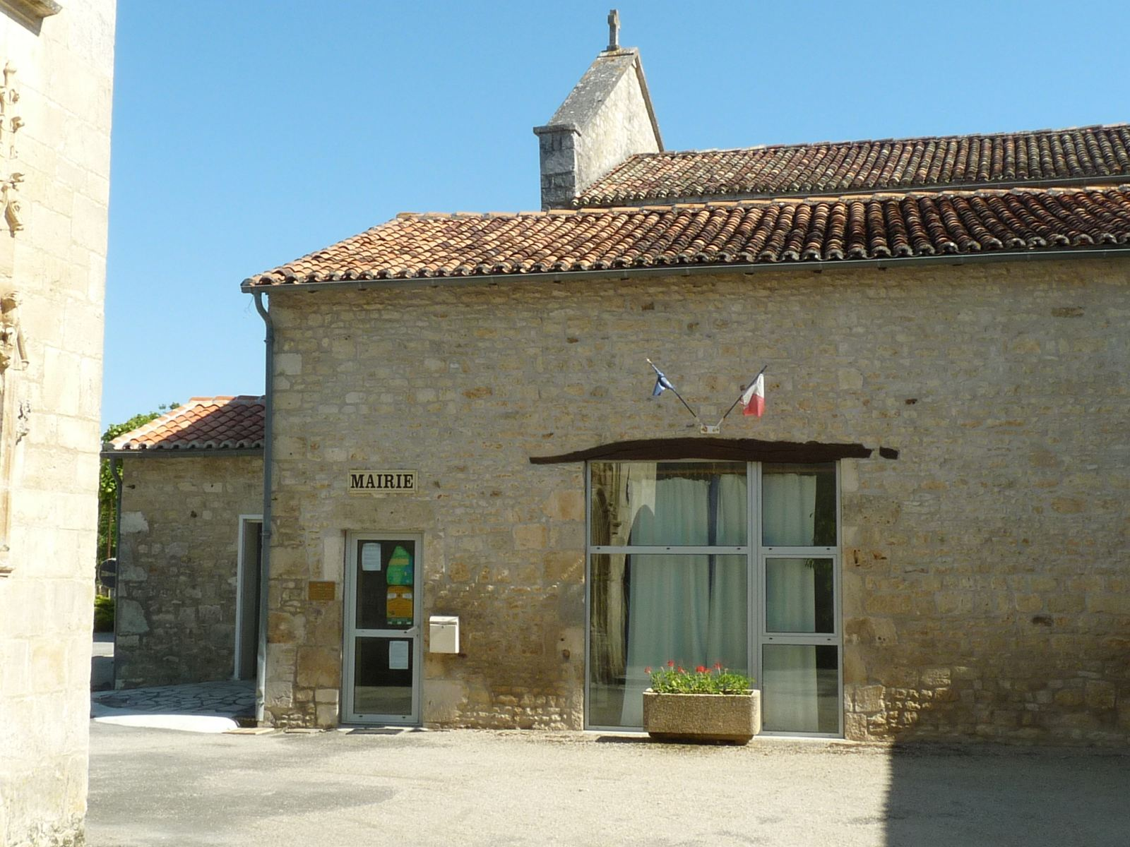 town hall of St-Amant-de-Bonnieure, Charente, SW France